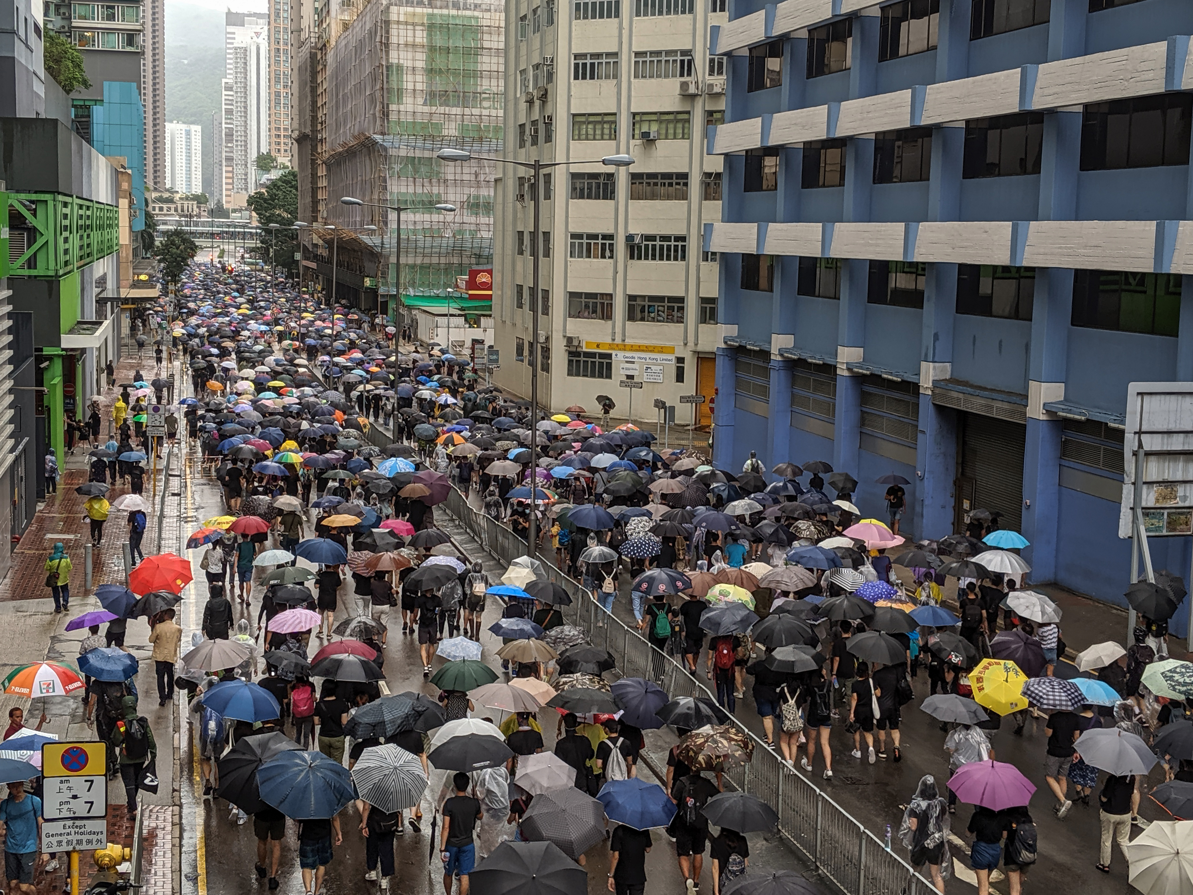 A part of the 2019 Hong Kong anti-extradition bill protests, the Tsuen Wan March took place on August 25, 2019.